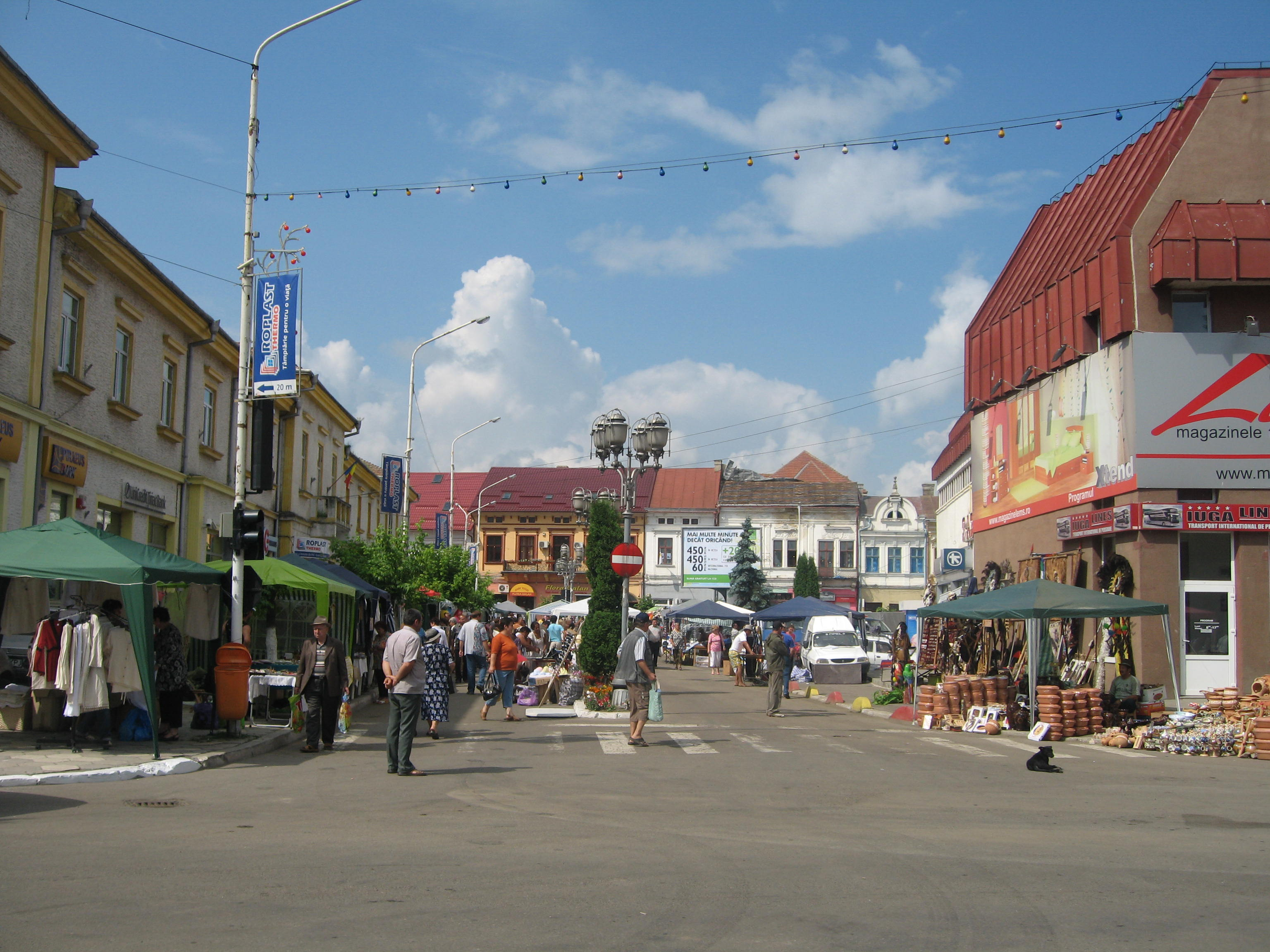 Centrul oraşului Rădăuţi